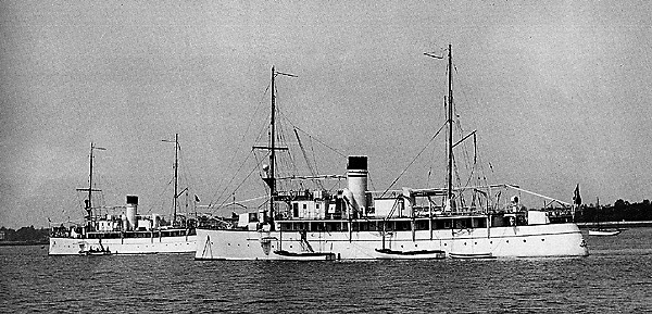 Ottoman gunboats Sakiz and Preveze at Southampton in July 1914.